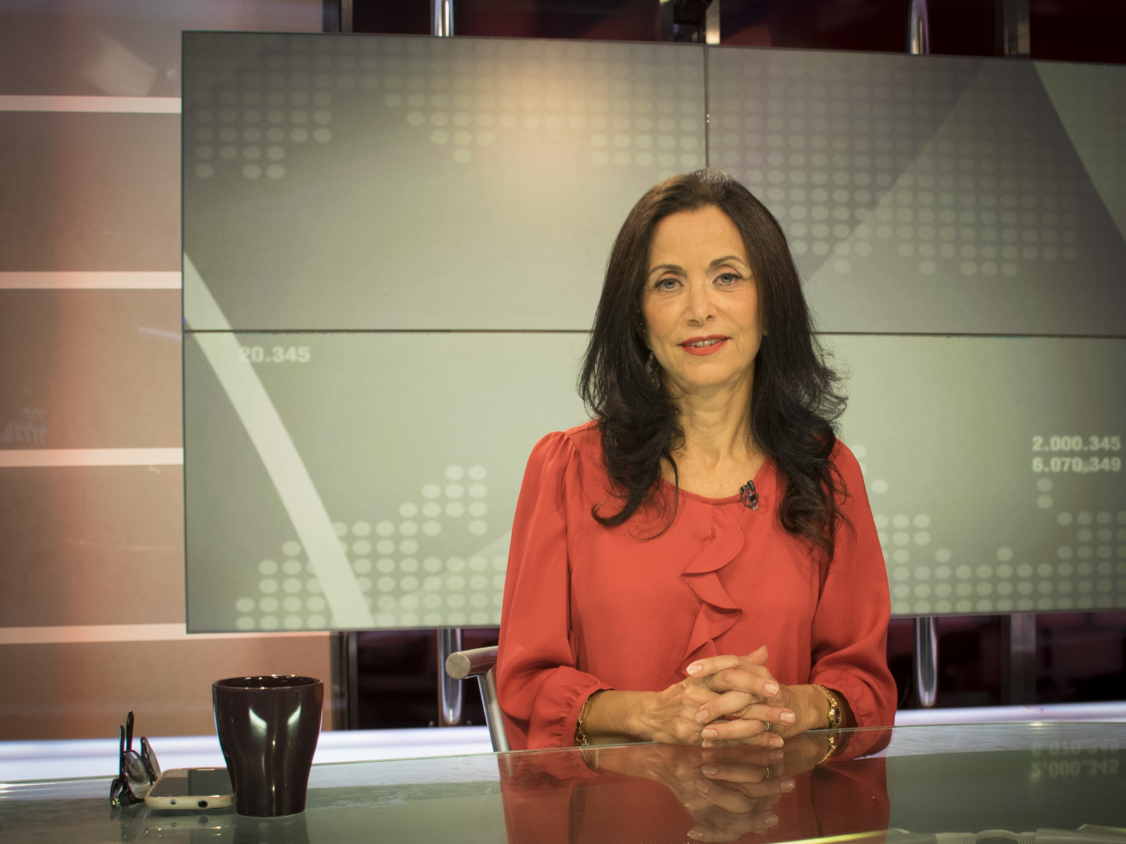 Ronit Tirosh